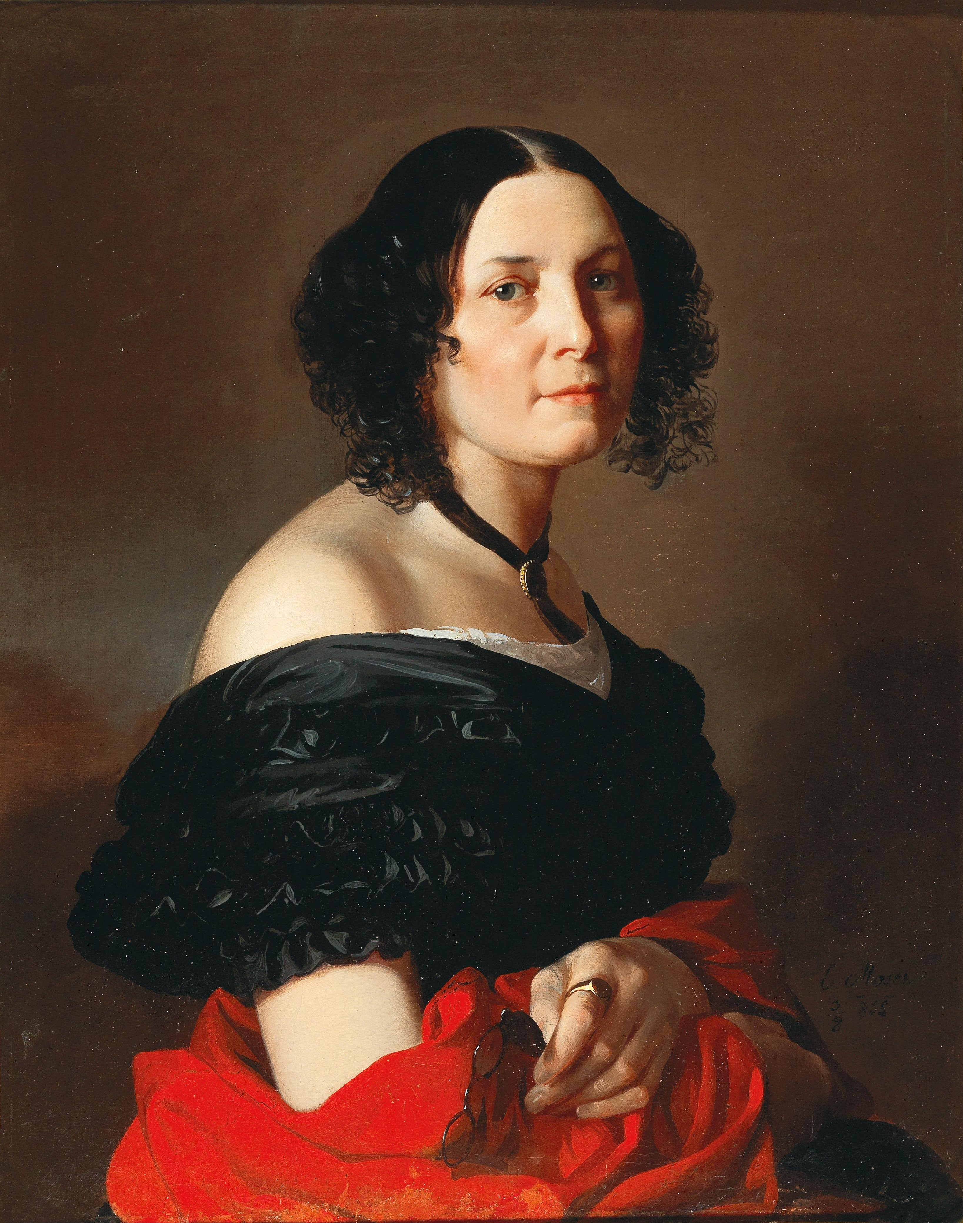 Elena Chreptowicz belonged to a Polish-Lithuanian noble family with vast estates in Belarus. Her husband, Vladimir Pavlovich Titov (1807–1891) was a writer – publishing under the pen name “Tit Kosmokratov” – and Russian ambassador to Istanbul and Stuttgart. Her brother was the son-in-law of Karl von Nesselrode, Foreign Minister under three Russian Czars. The Titoffs spent the year 1855 in Vienna, when Vladimir Titoff took part in the Vienna Conference.